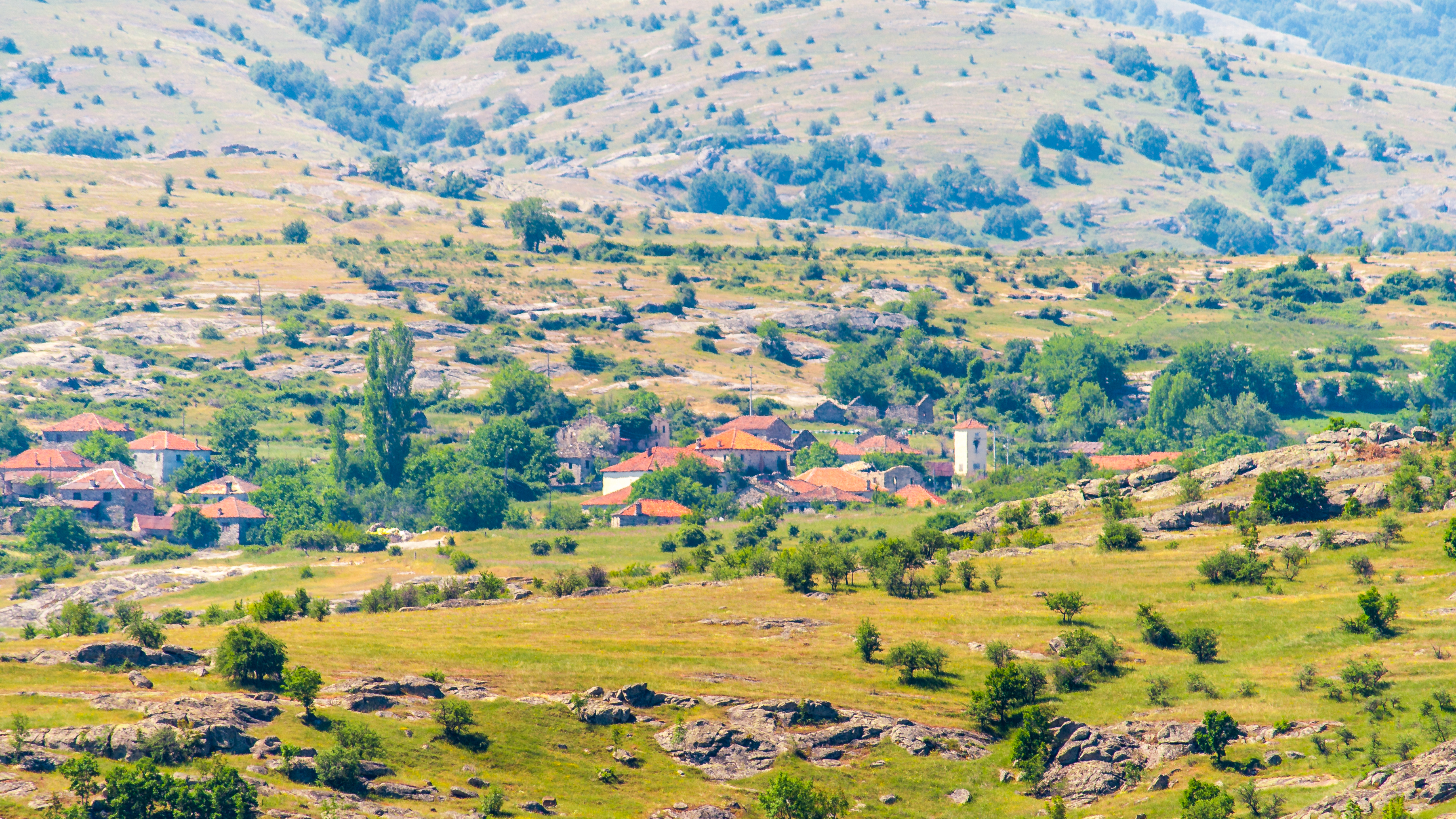 View of the village Staravina